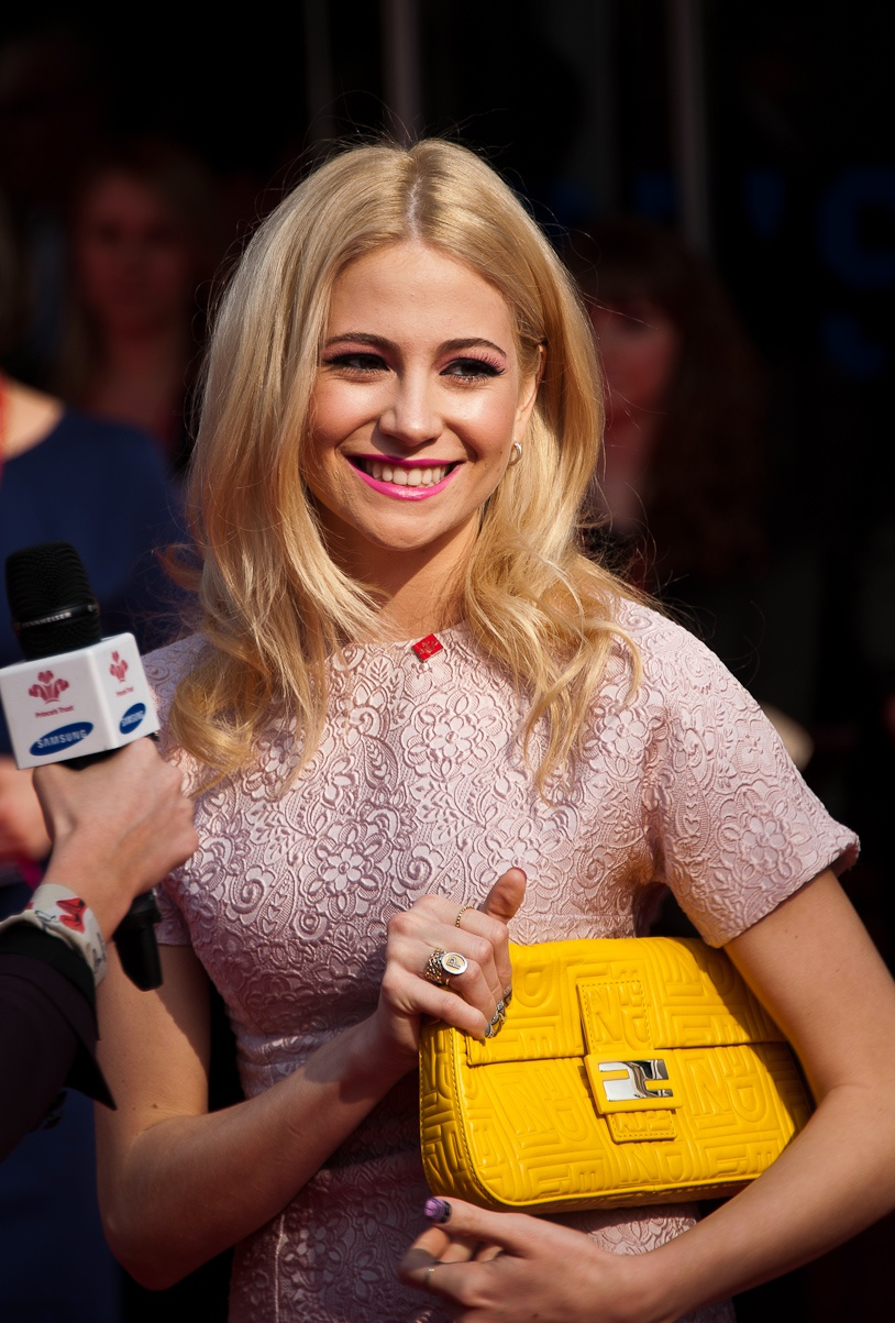 Pixie Lott at the 2014 Prince's Trust Celebrating Success Awards, 12 March 2014